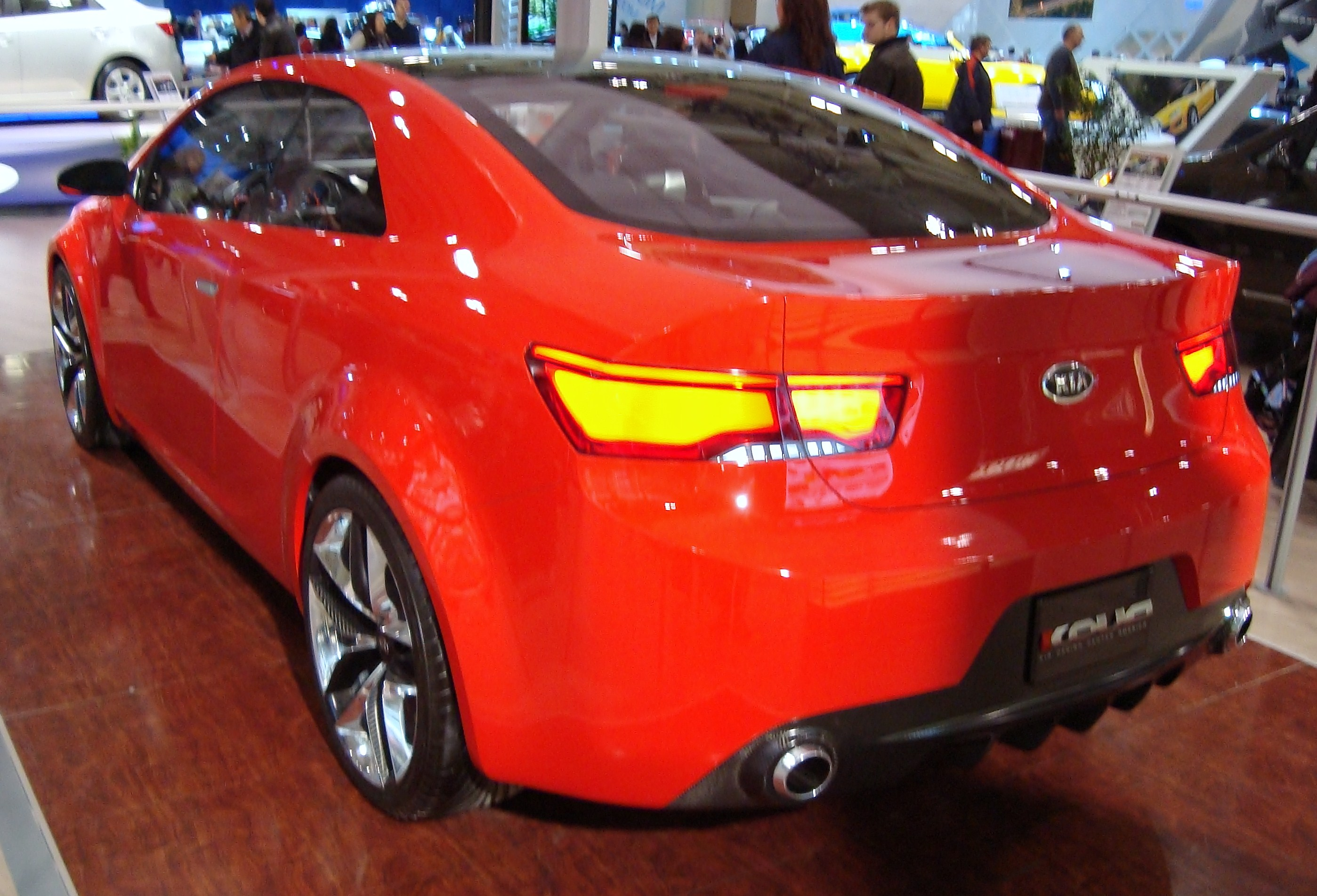 Kia KOUP Concept.